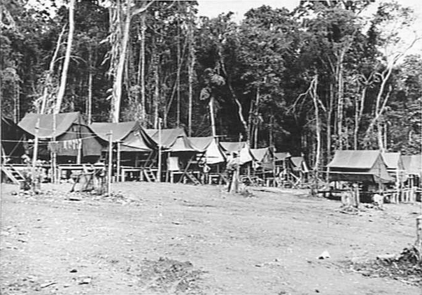 YALU AREA, NEW GUINEA, 1945-07-30. THE CAMP AREA NO. 3 PLATOON, 2/1 FORESTRY COMPANY, ROYAL AUSTRALIAN ENGINEERS.